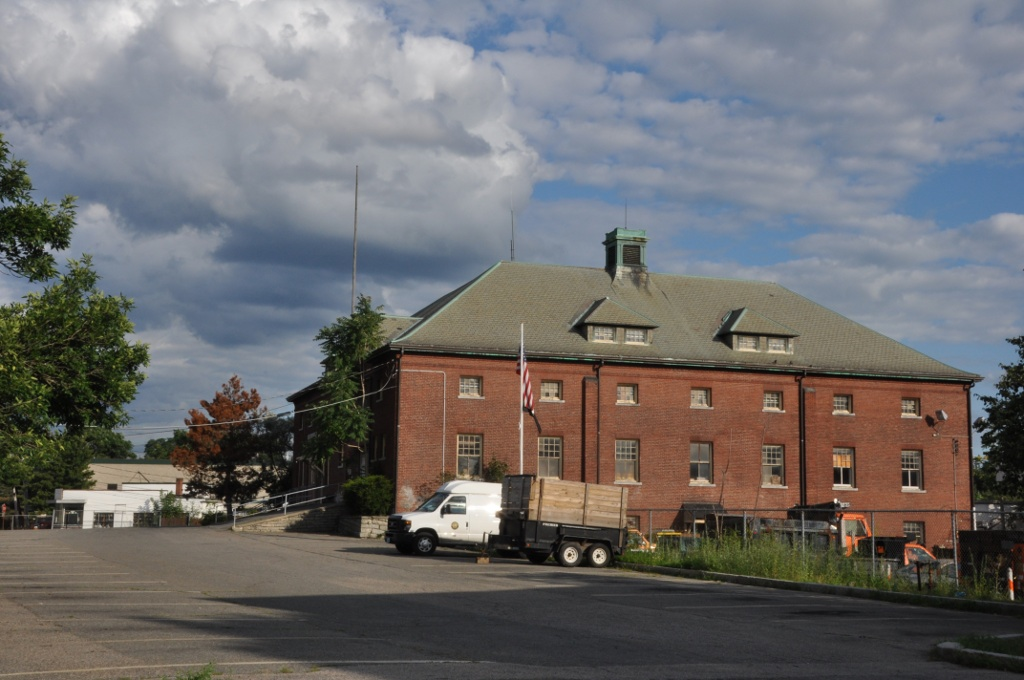 A photograph of the historic Crafts Street City Stable in Newton, Massachusetts.